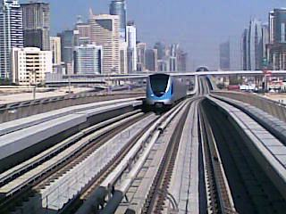 Dubai Metro Train